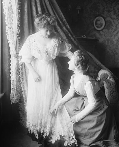 Johanna Gadski (1872 - 1932), German opera singer, soprano (copyright 1909 George Grantham Bain) cropped from original